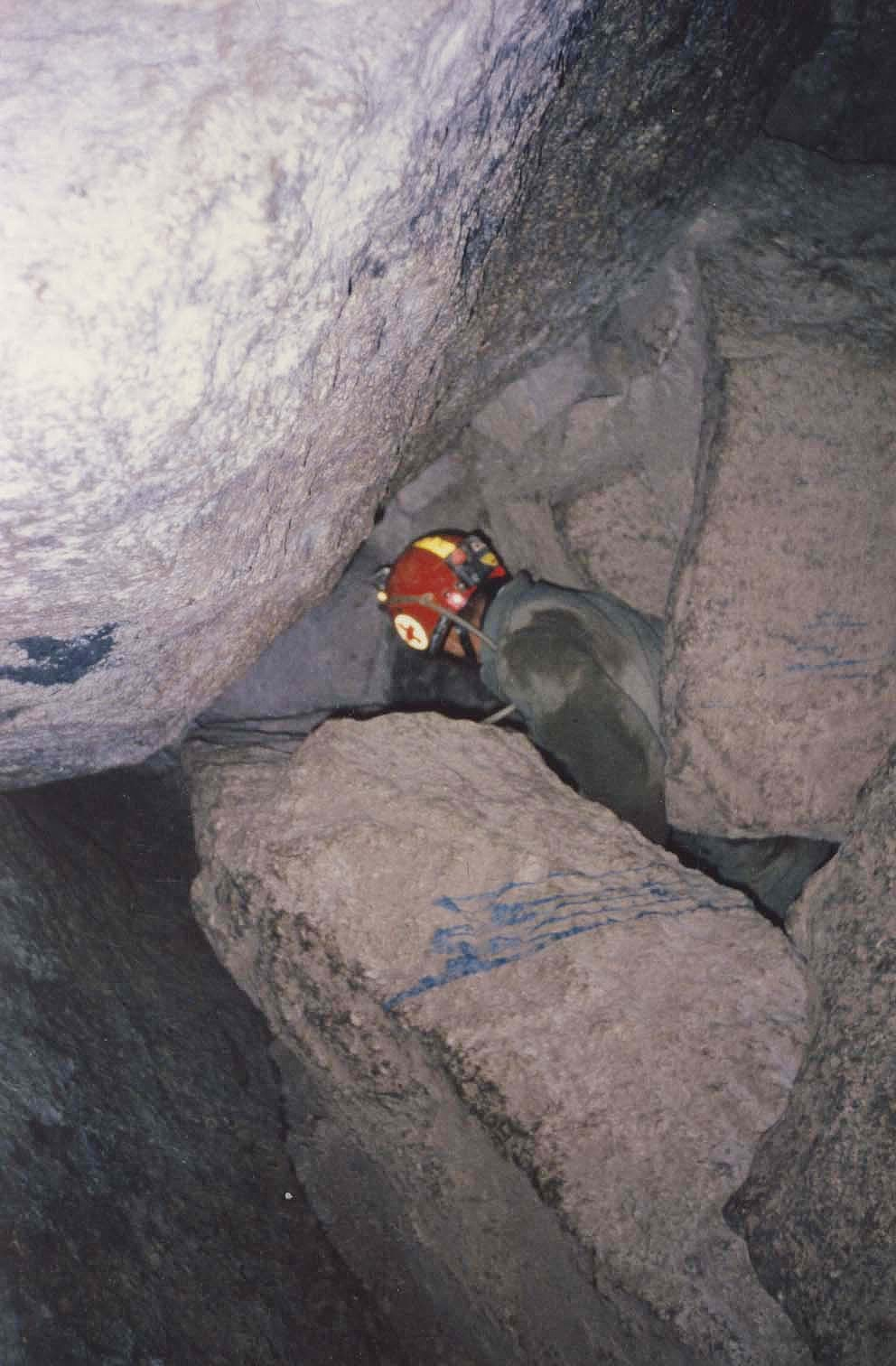 Inside of Csörgő Hole in Mátraszentimre.